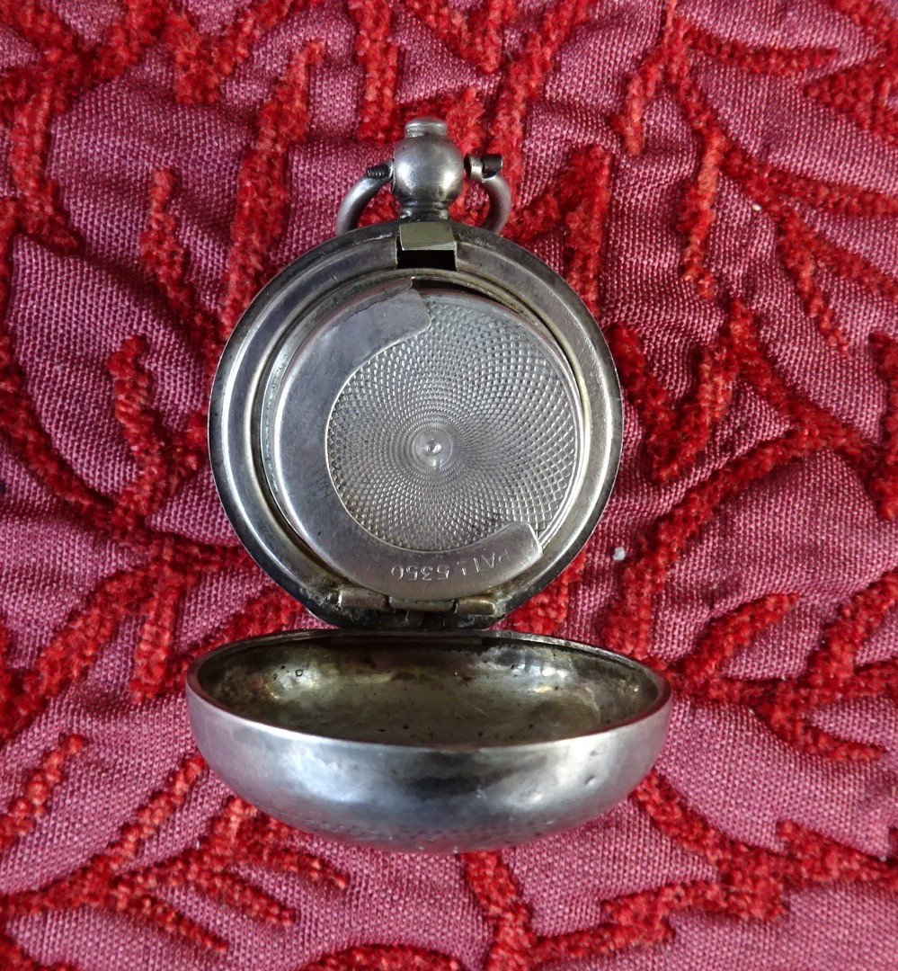 Sovereign (British Coin) case, spring seat and holder. Once the property of Dr Samuel Wilson of Wellfield, Rochdale, England.